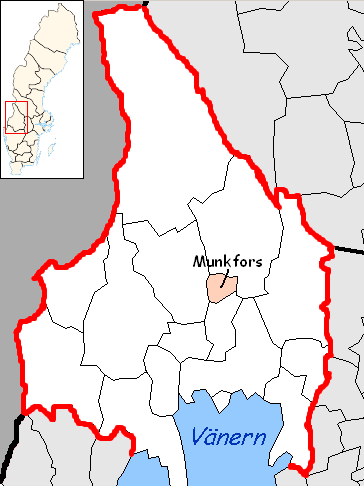 Munkfors Municipality in Värmland County Designd by me, based on Image:Värmland County.png